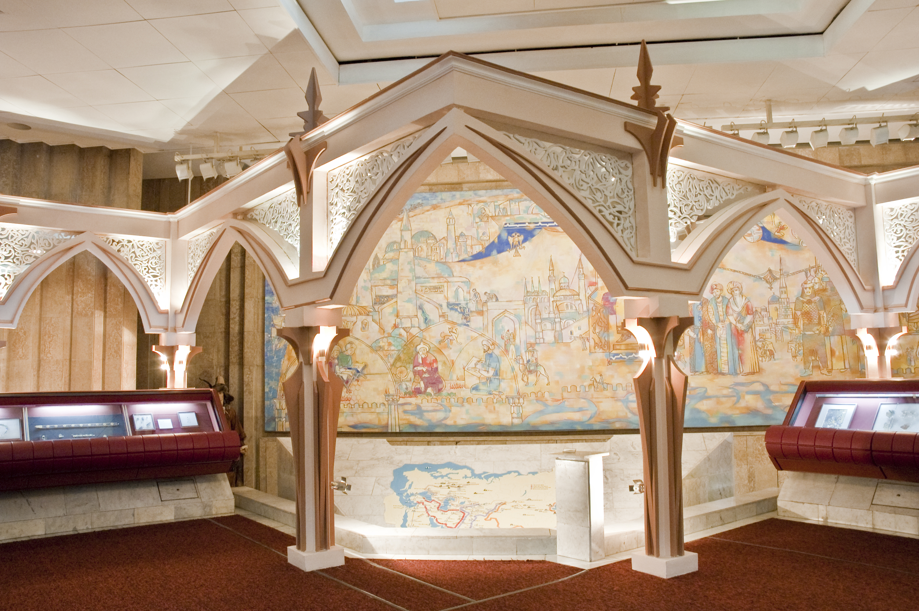 National Culture Museum of Tatarstan Republic